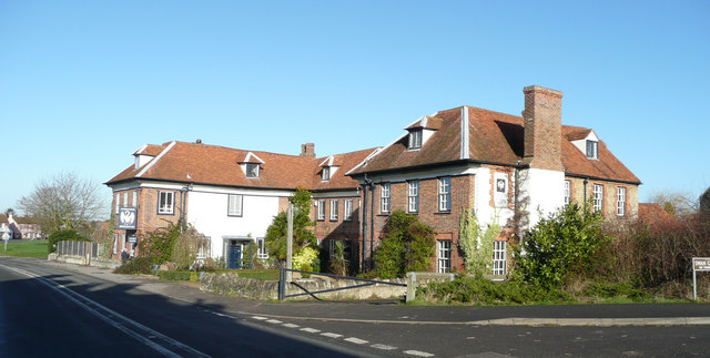 The Swan at Tetsworth What was an Elizabethan coaching inn on the London to Oxford road is now an antiques emporium coupled with posh restaurant.